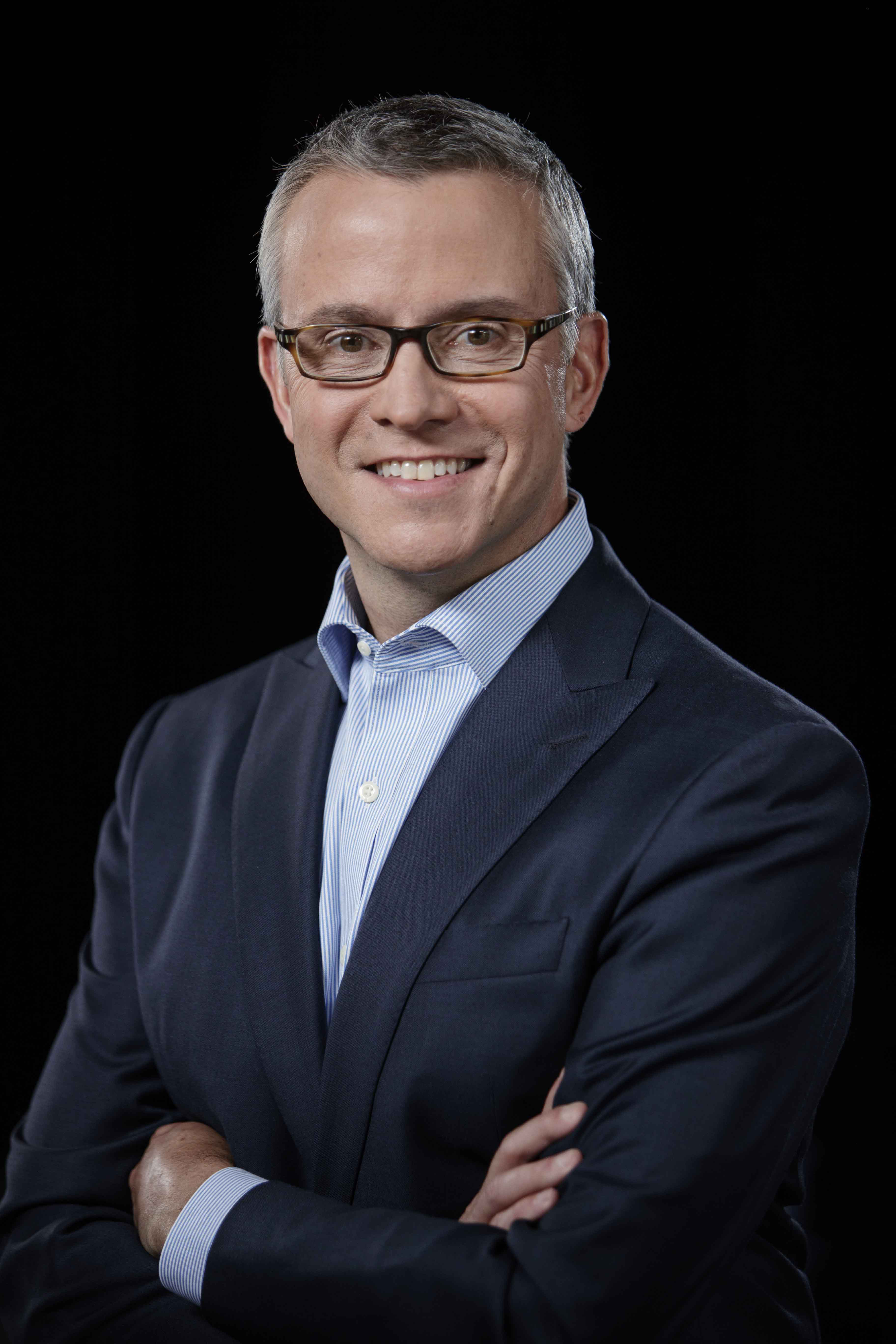 Profile image of H&R Block CEO Jeff Jones in 2017